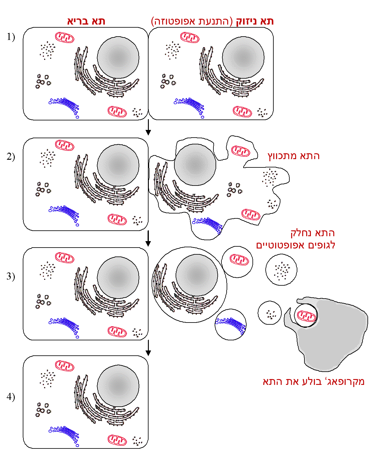 Labelled diagram of a cell undergoing apoptosis